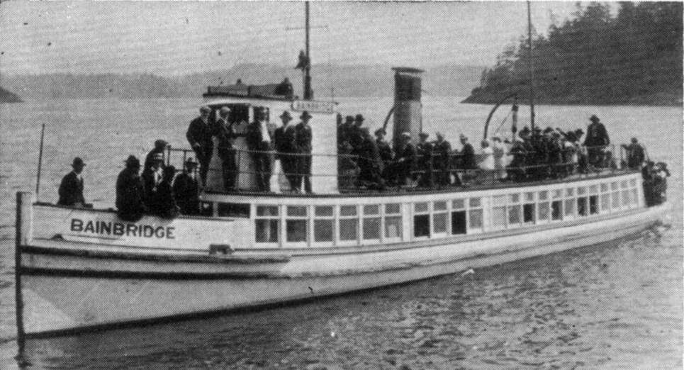 Motor vessel Bainbridge, built 1908, later known as Speeder.